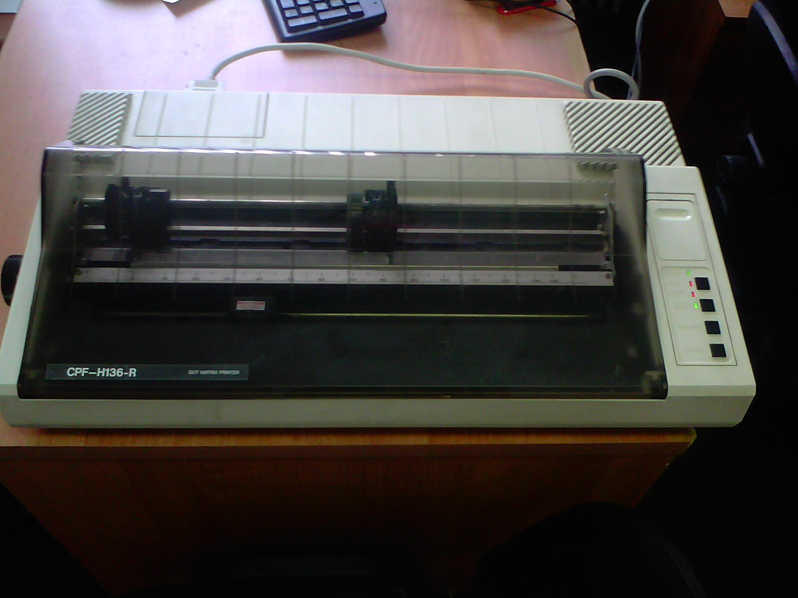 Epson FX-85 - dot matrix printer (model CPF-H136II)